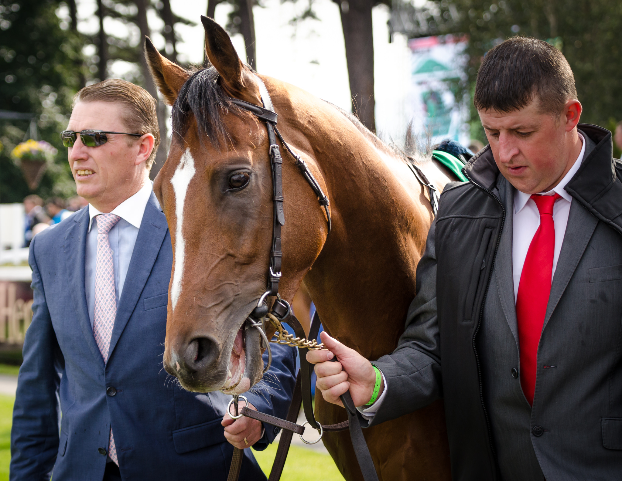 Leopardstown, Irish Champions Weekend, September 2014